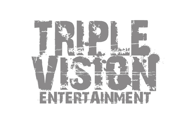 TRIPLE VISION entertainment Official Logo